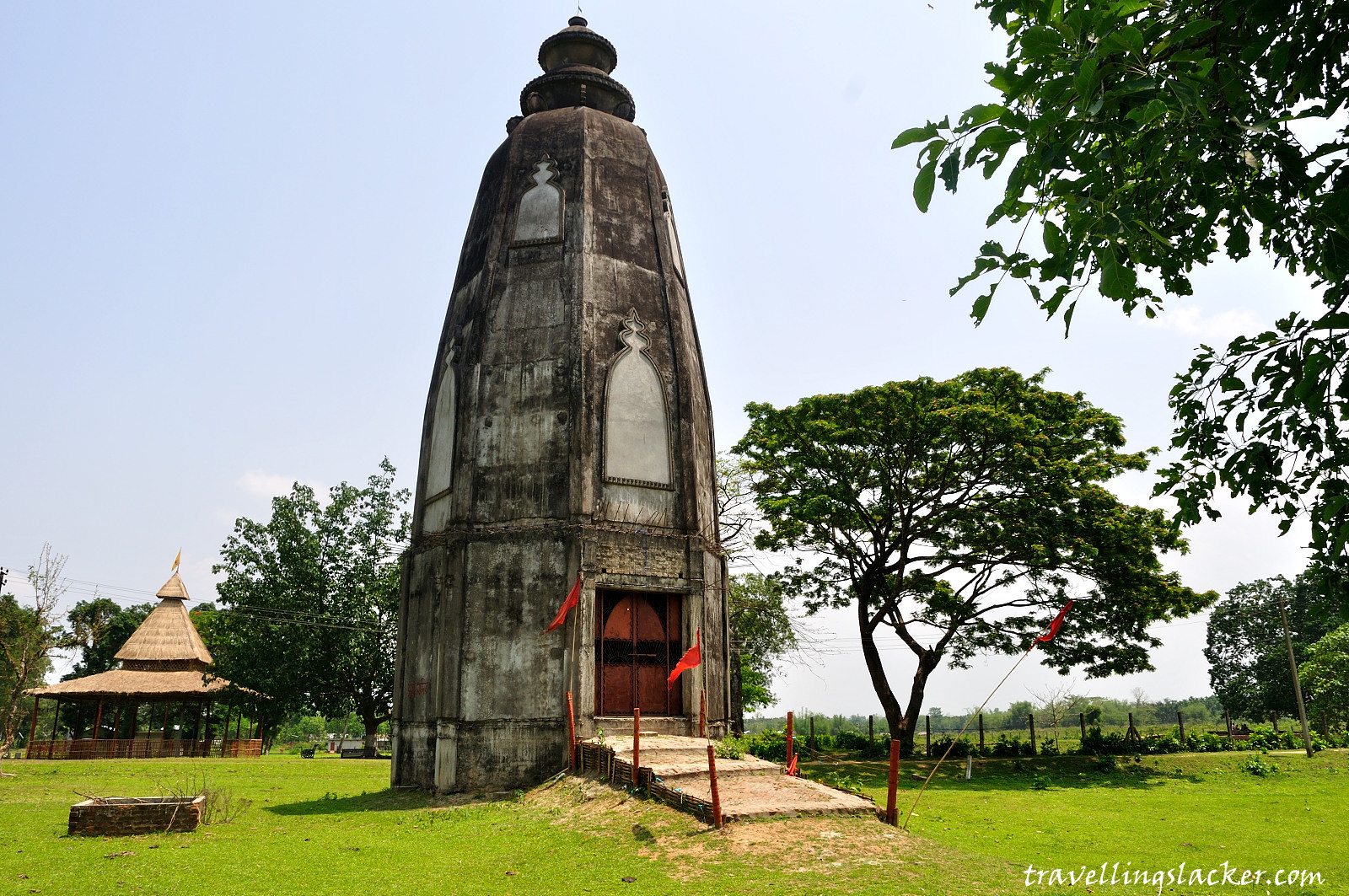 Sri Surya Pahar is an unique place in which three religions- hinduism, jainism and buddhism coexist. Reportedly there are 99,999 rock cut sivlings/stupas.